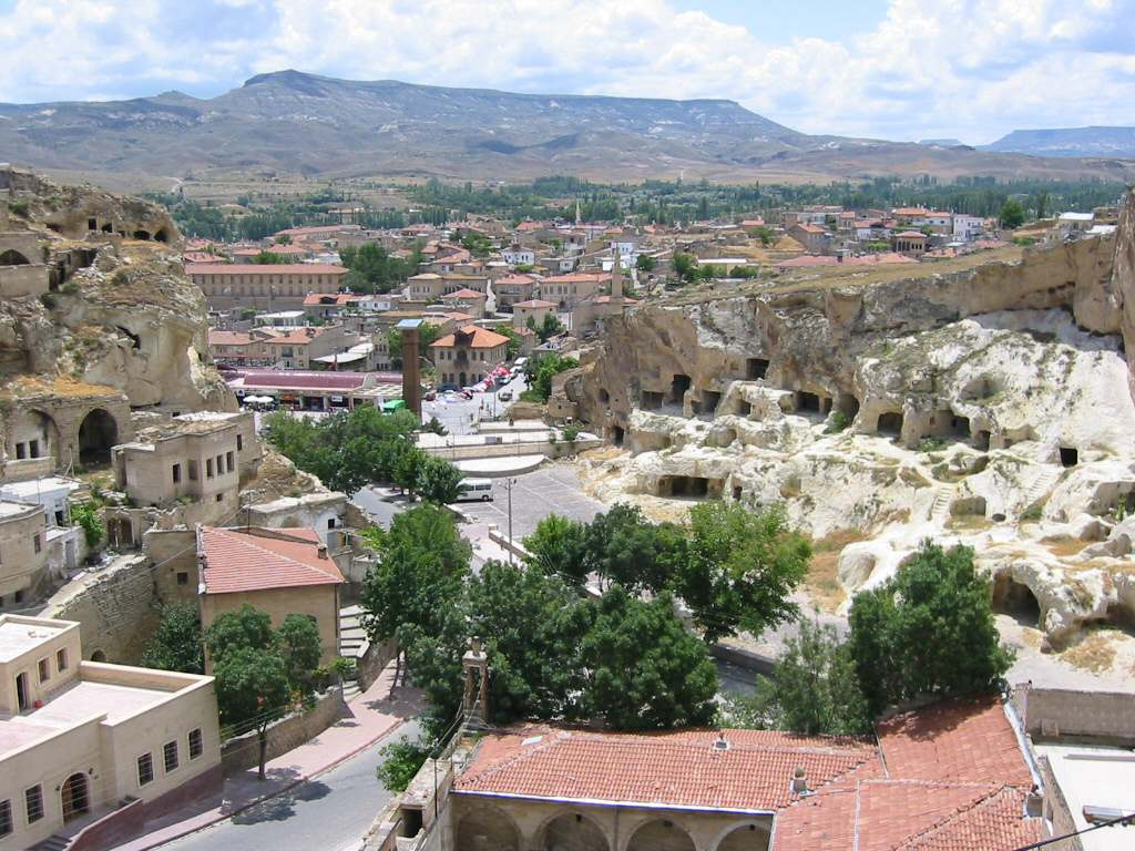 General view of Ürgüp.